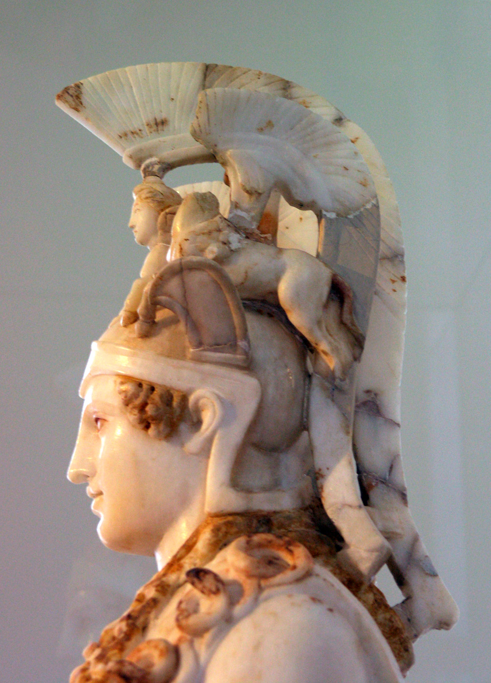 Athena Varvakeion, small Roman replica of the Athena Parthenos by Phidias. Found in Athens near the Varvakeion school, hence the name. First half of the 3rd c. AD.